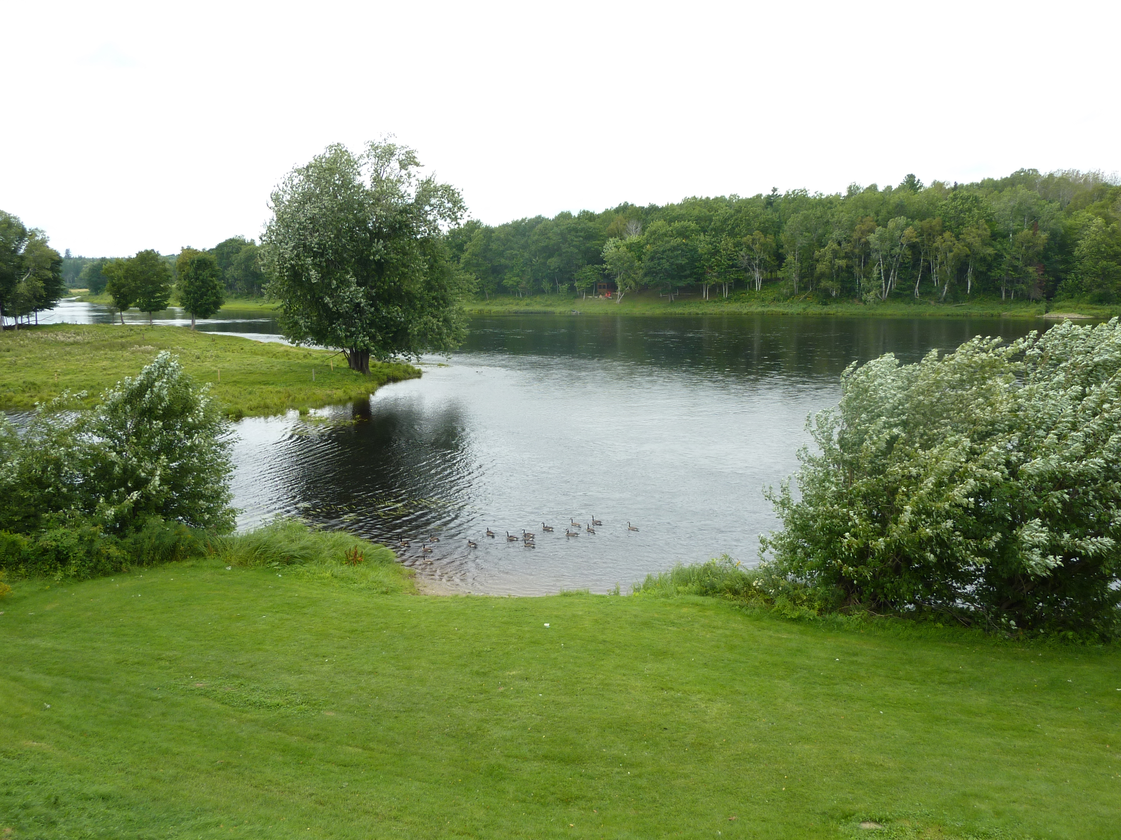 The Miramichi River in Doaktown.